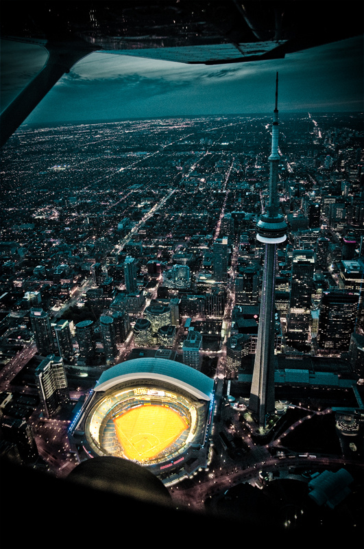 Aerial view of the CN Tower and the Rogers Centre, Toronto, Ontario, Canada.